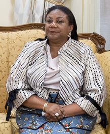 First Lady Melania Trump participates in a welcome ceremony Tuesday, Oct. 2, 2018, with Rebecca Akufo-Addo, the First Lady of the Republic of Ghana (Official White House Photo by Andrea Hanks)